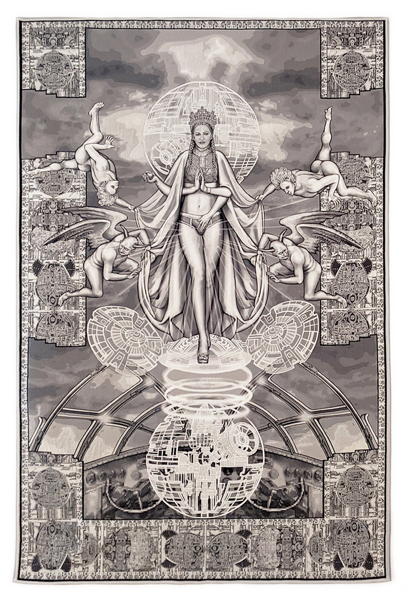 Margret Eicher, Assunta, 2020, digital collage / jacquard tapestry, 308 x 250 cm